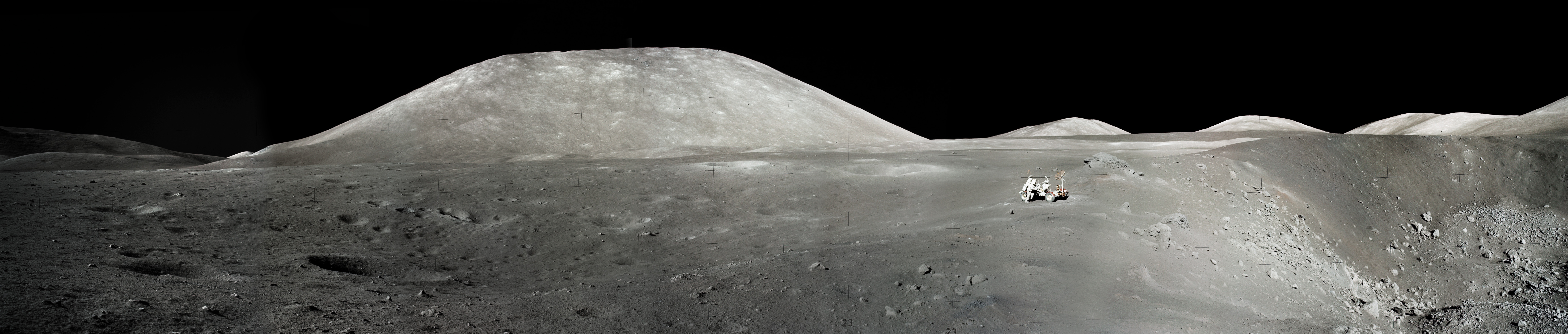 Panorama of the Taurus-Littrow valley on the moon. This Station 4 panorama shot by Apollo 17 astronaut Gene Cernan on 13 December 1972 shows the Taurus Littrow valley with astronaut Jack Schmitt standing 40 metres to the west beside the lunar rover at the edge of the 110-metre wide Shorty Crater. Cernan spent about two minutes shooting 37 pictures side-by-side (frame numbers AS17-137-20991 to AS17-137-21027). These have been used to create various panormaic views of the Station 4 site which was visited during the second of three moonwalks during the Apollo 17 mission. The lunar soil is tinted faintly orange between the lunar rover and the large boulder behind it, and on the sloping inner sides of the crater. The tint comes from 3.7 billion-year-old tiny orange glass beads created by volcanic fire fountains. These were buried in the soil and later excavated by the Shorty Crater impact, 20 to 30 million years ago. The low mountain directly behind the lunar rover is Family Mountain, six kilometres away (refs: Apollo 17 Preliminary Science Report, NASA; Apollo 17 Mission Report, NASA).